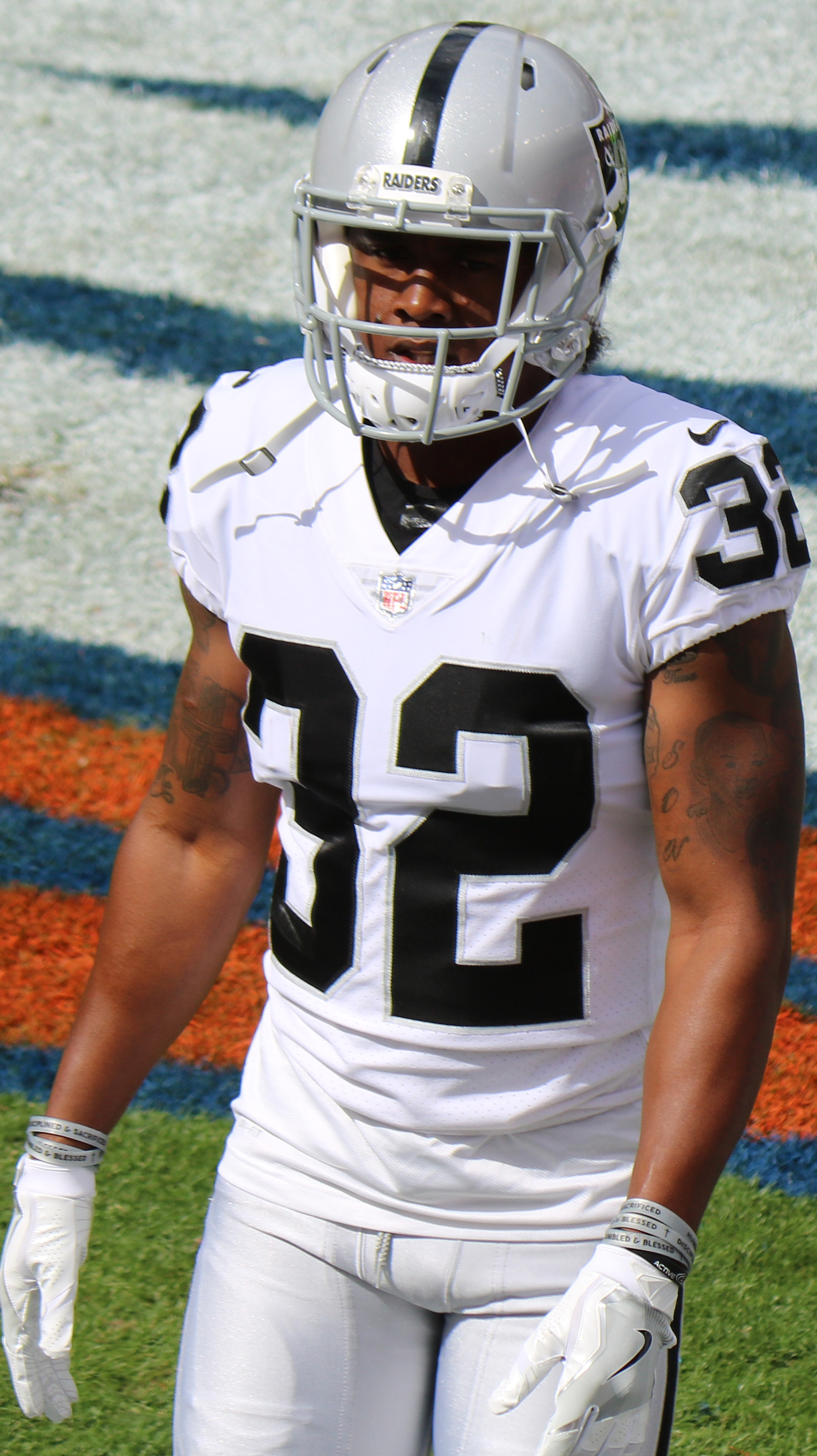 Antonio Hamilton, a player on the National Football League.